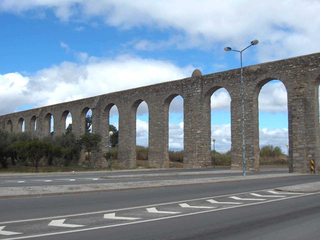 View on the aqueduct; Evora, Portugal